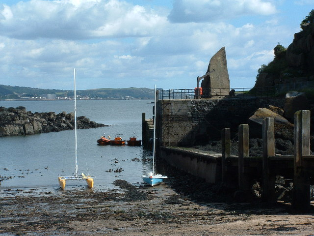 Inchcolm Harbour The harbour where the Maid of the Forth delivers visitors to Inchcolm. We, the civil service sailing club arrived on the Dart and the RS, plus assorted Bosuns Dinghy's and the three power/safety boats in the back-ground